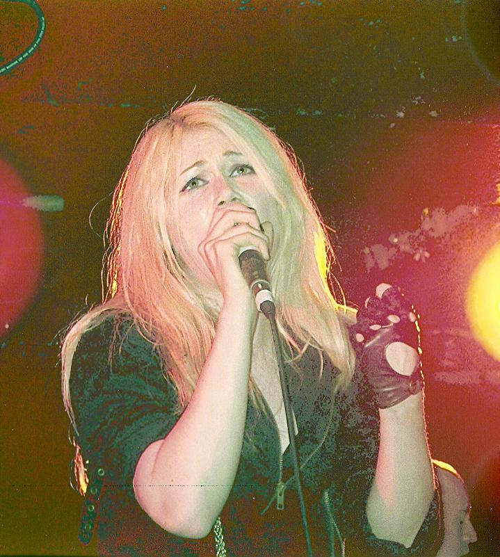 Photo taken by Mick Rock in 2006. Posted by Dirty Harry's team with Mick's consent. He rocks!